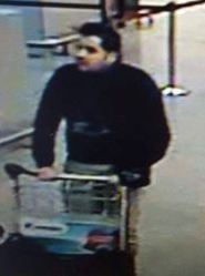 Suspects in the 2016 Brussels bombings filmed by a CCTV camera. Left to right: Najim Laachraoui, Ibrahim El Bakraoui and Mohamed Abrini.